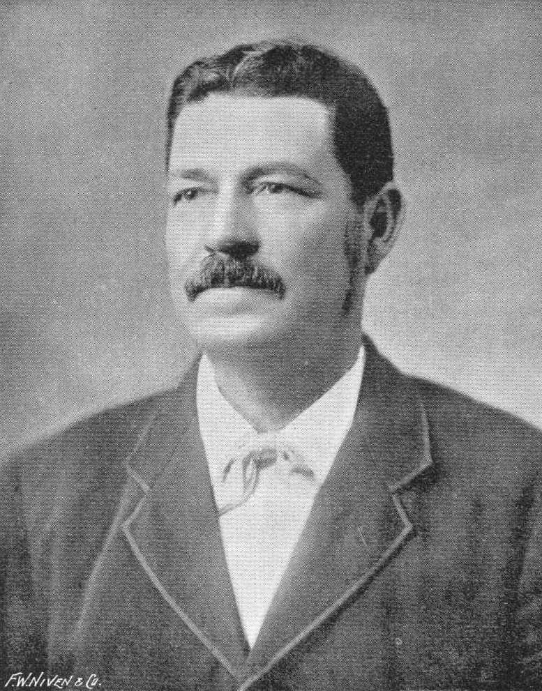 Original scan